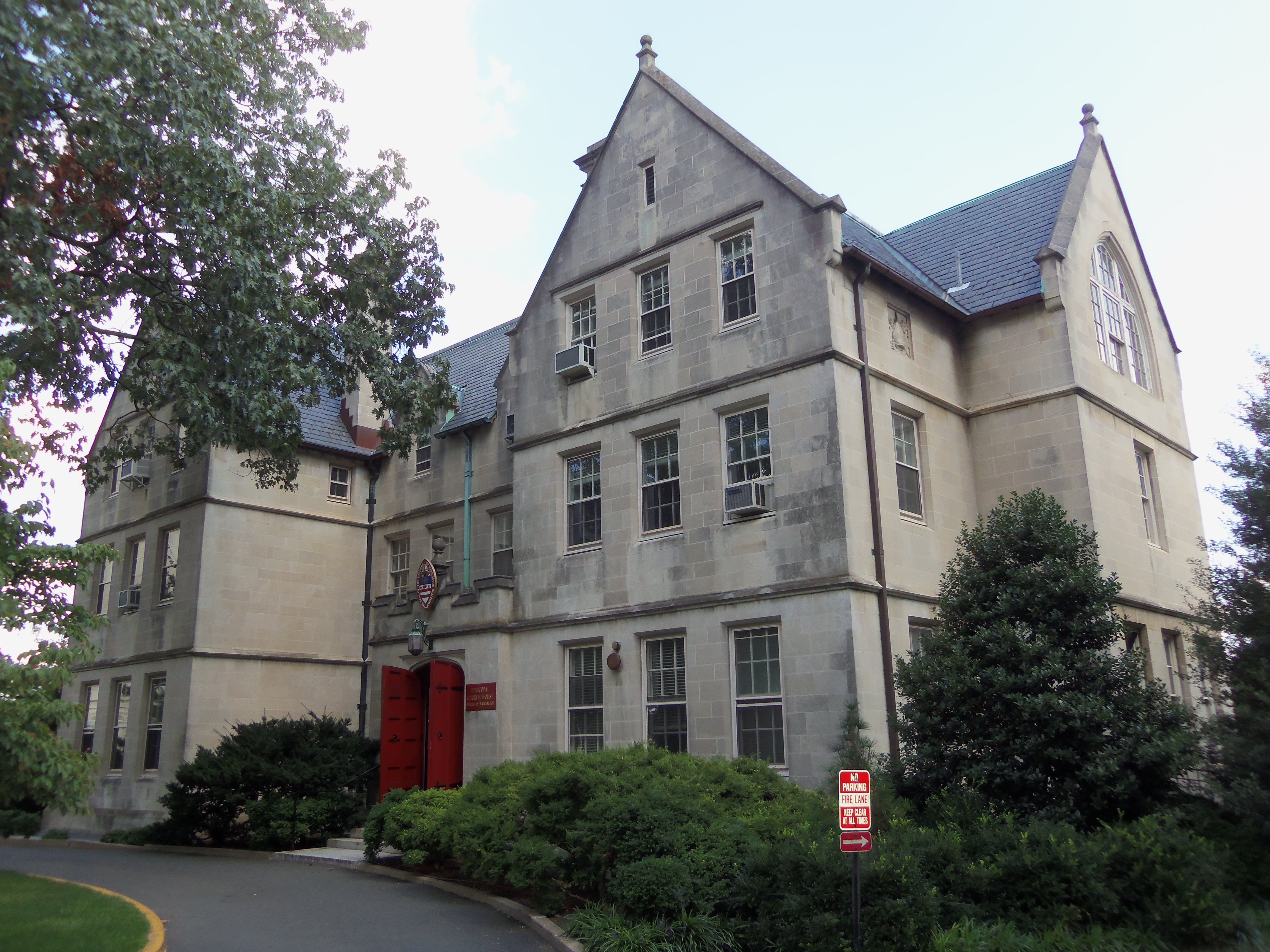 Episcopal Church House on Mount St. Alban in the District of Columbia is the headquarters for the Episcopal Diocese of Washington.